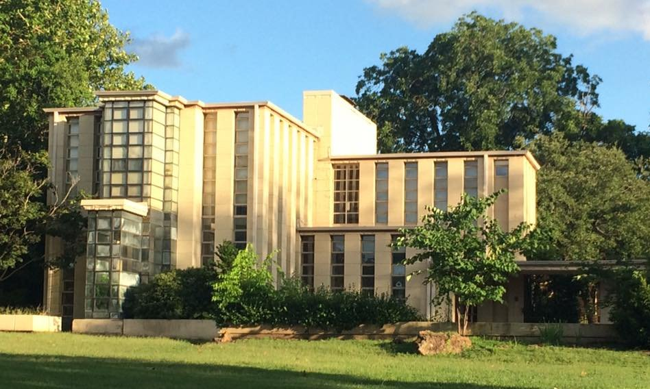 This is a picture of the Richard Lloyd Jones Home named Westhope, located at 3704 S. Birmingham Ave. in Tulsa, Oklahoma.